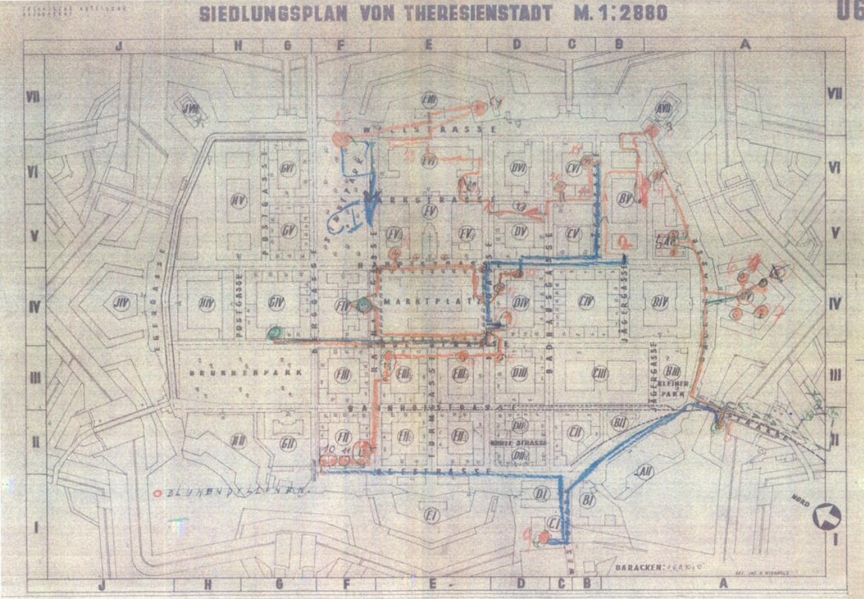 Map of Terezín with plan of the visit by the International Commission of the Red Cross